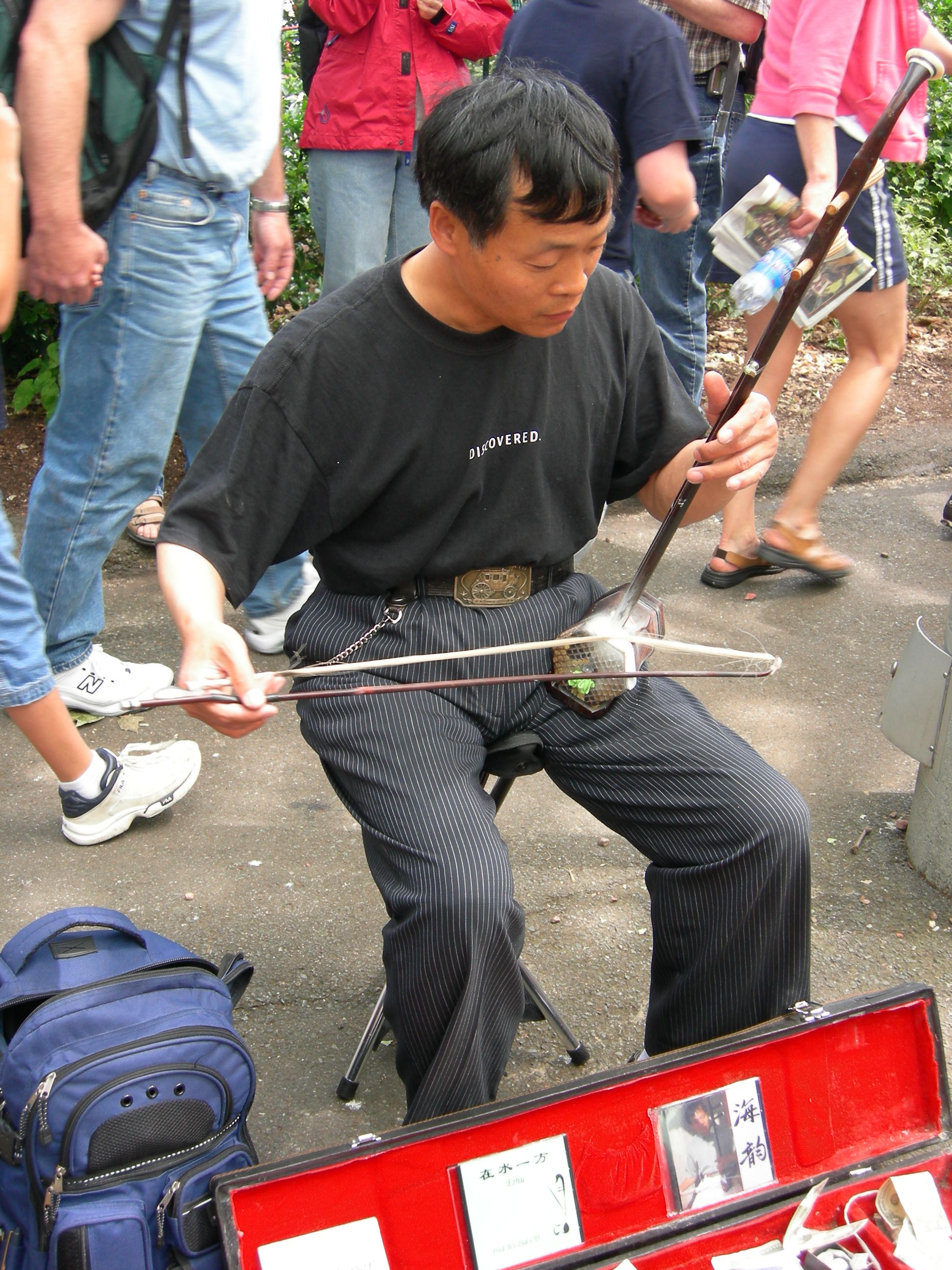 Fred Ji playing erhu (Chinese stringed instrument), Northwest Folklife Festival, Seattle Center, 2007.